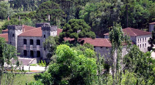 User Ricardo630 took this photograph and releases all rights Summary User Ricardo630 took this photograph and releases all rights